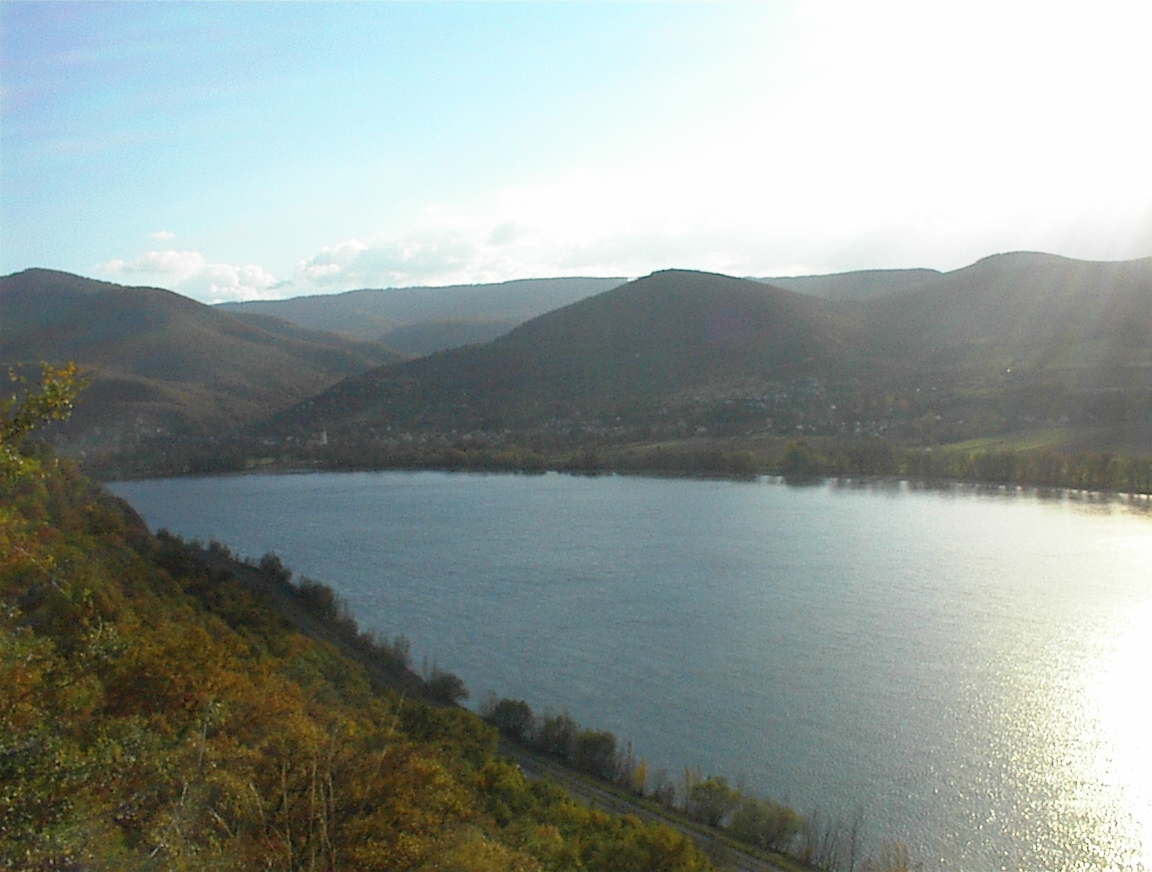 The hilltop viewpoint over Zebegény